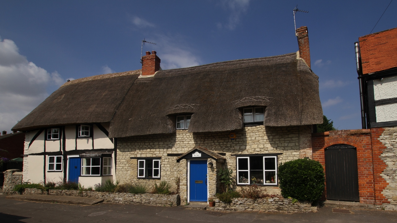 1–2 The Green, Chalgrove, Oxfordshire, seen from the east. 2 (left) is a 17th-century timber-framed cottage. 1 (right) is an 18th-century stone cottage. The two are now combined as a single house.